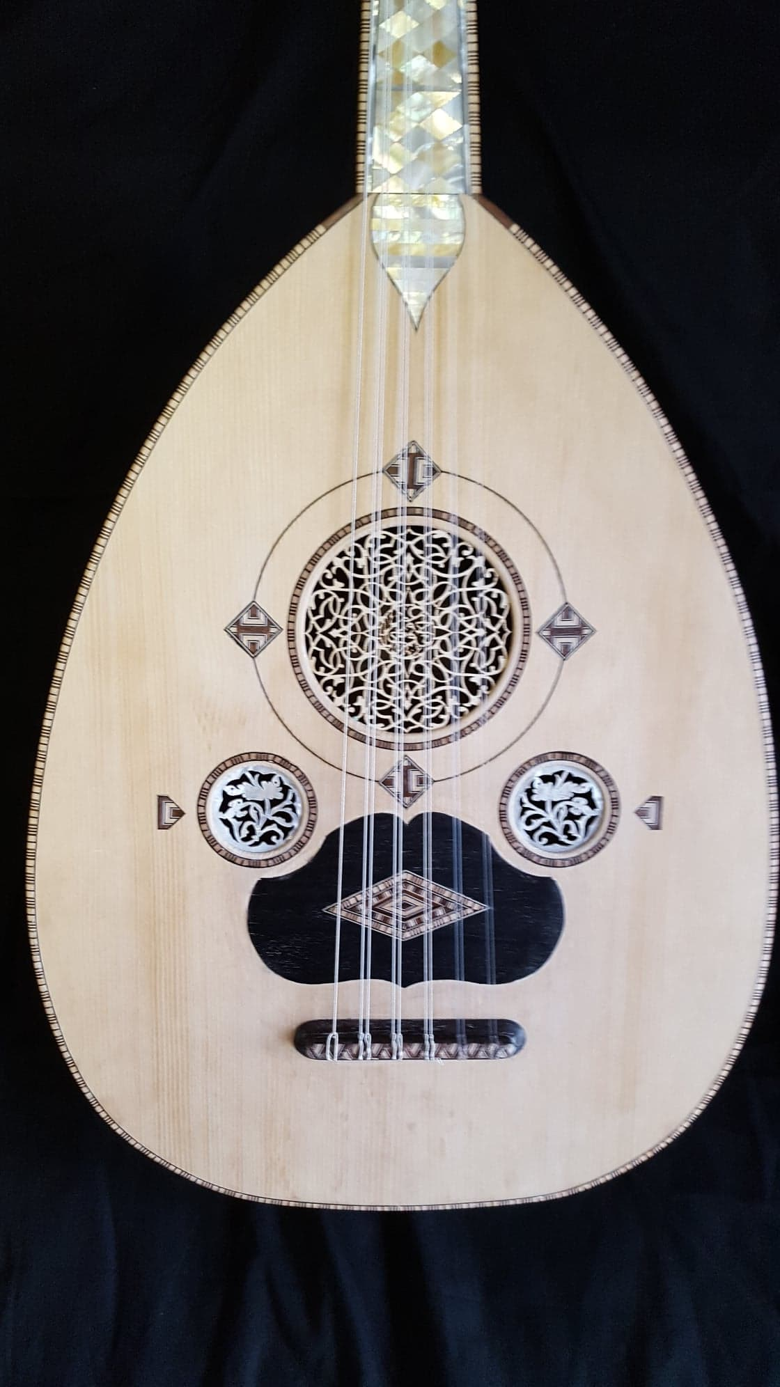 Oud built by luthier John Vergara in New York, USA (front view)